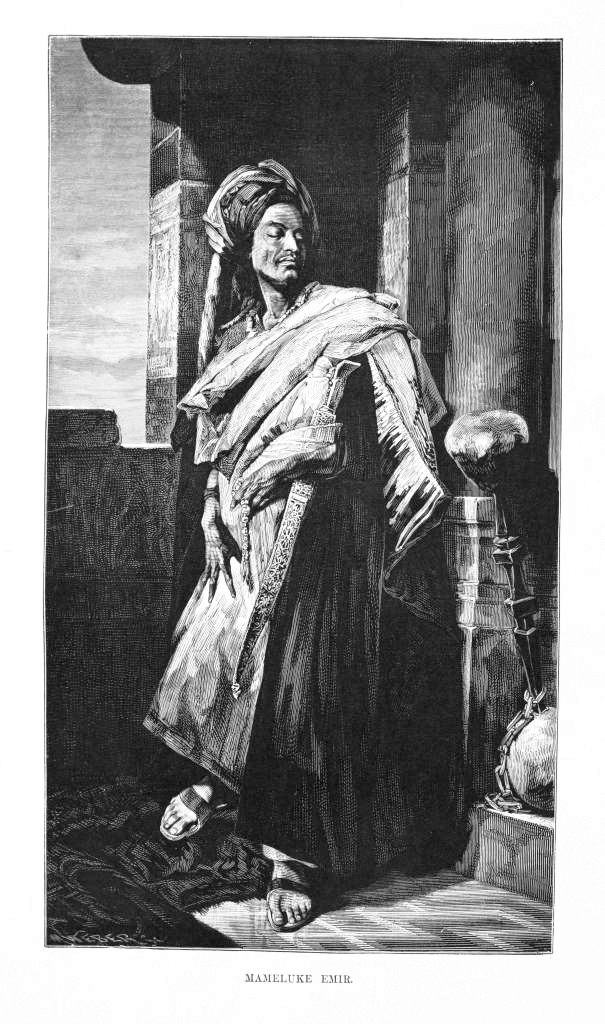 Portrait of a Mameluke Emir.